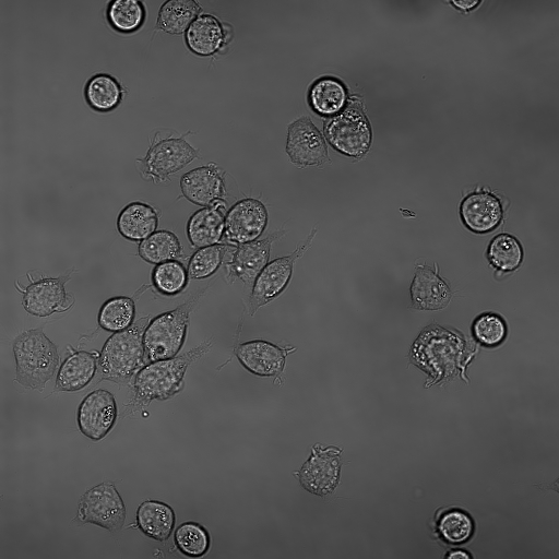 This is how the RBL (Rat Basophilic Leukaemia) cell line looks like under the light microscope. They are used in molecular biology and immunology cell based assays.